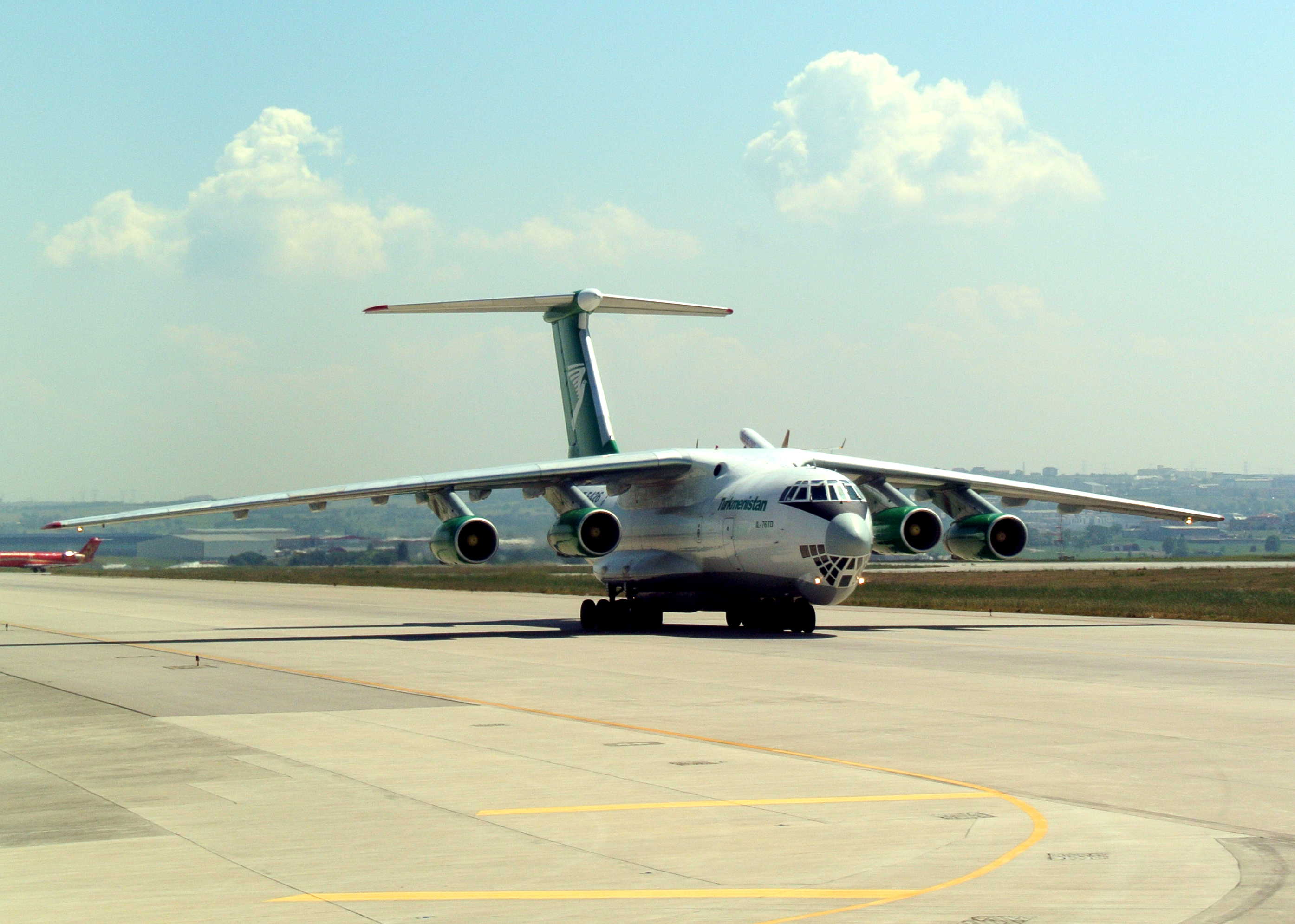 Ilyushin Il-76 TD cargo aircraft from Turkmenistan Airlines at Sabiha Gökçen International Airport, Turkey.